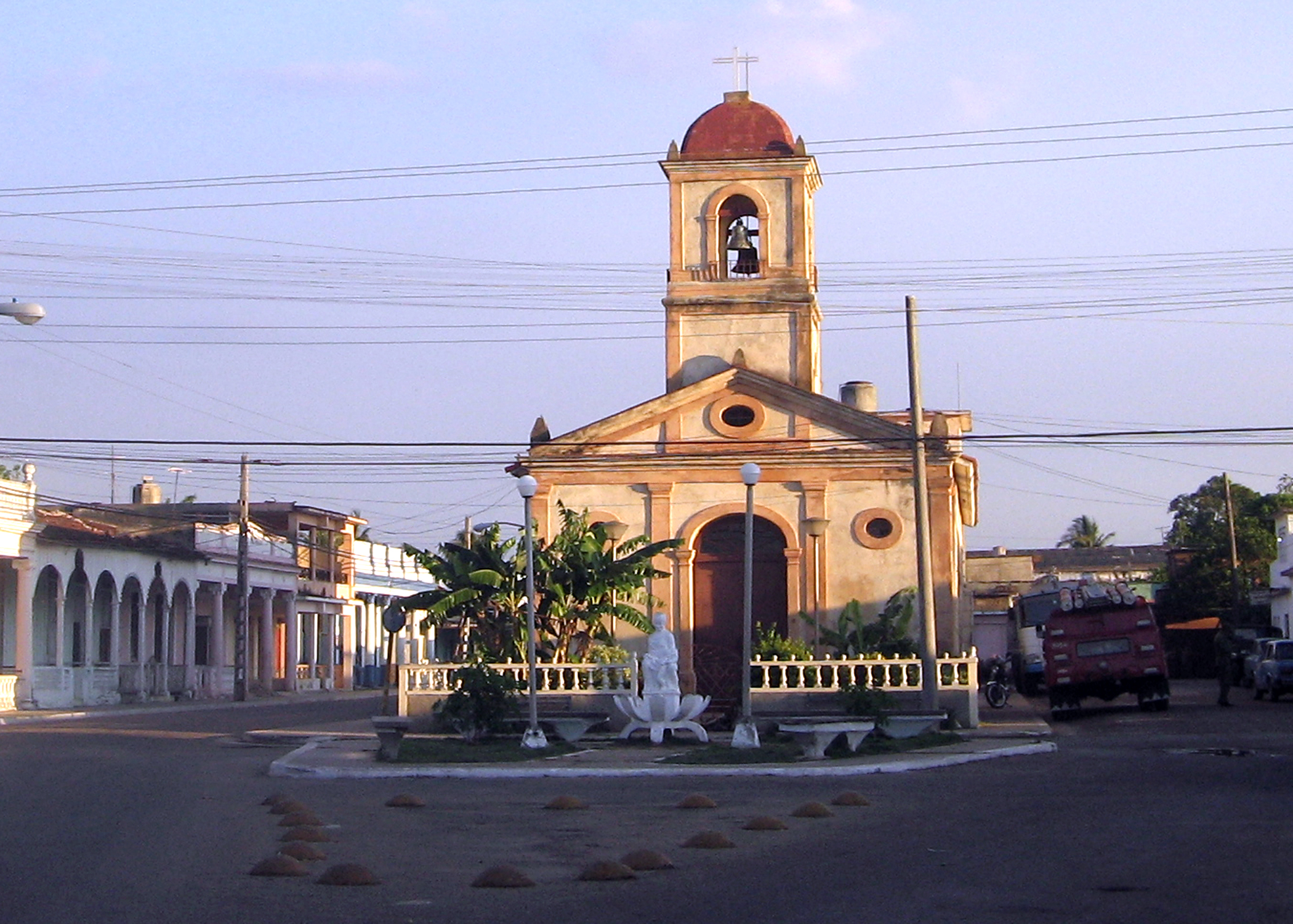 The main street and central church in Limonar, Cuba.